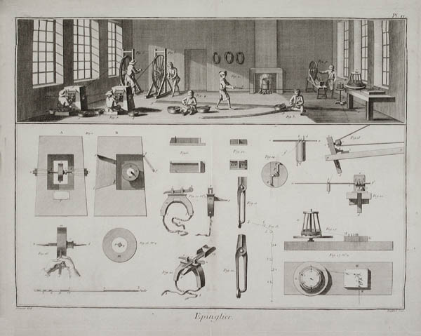 Pin maker's factory, as depicted in Diderot's Encyclopédie, ou Dictionnaire raisonné des sciences, des arts et des métiers 1762: Epinglier, Plate II